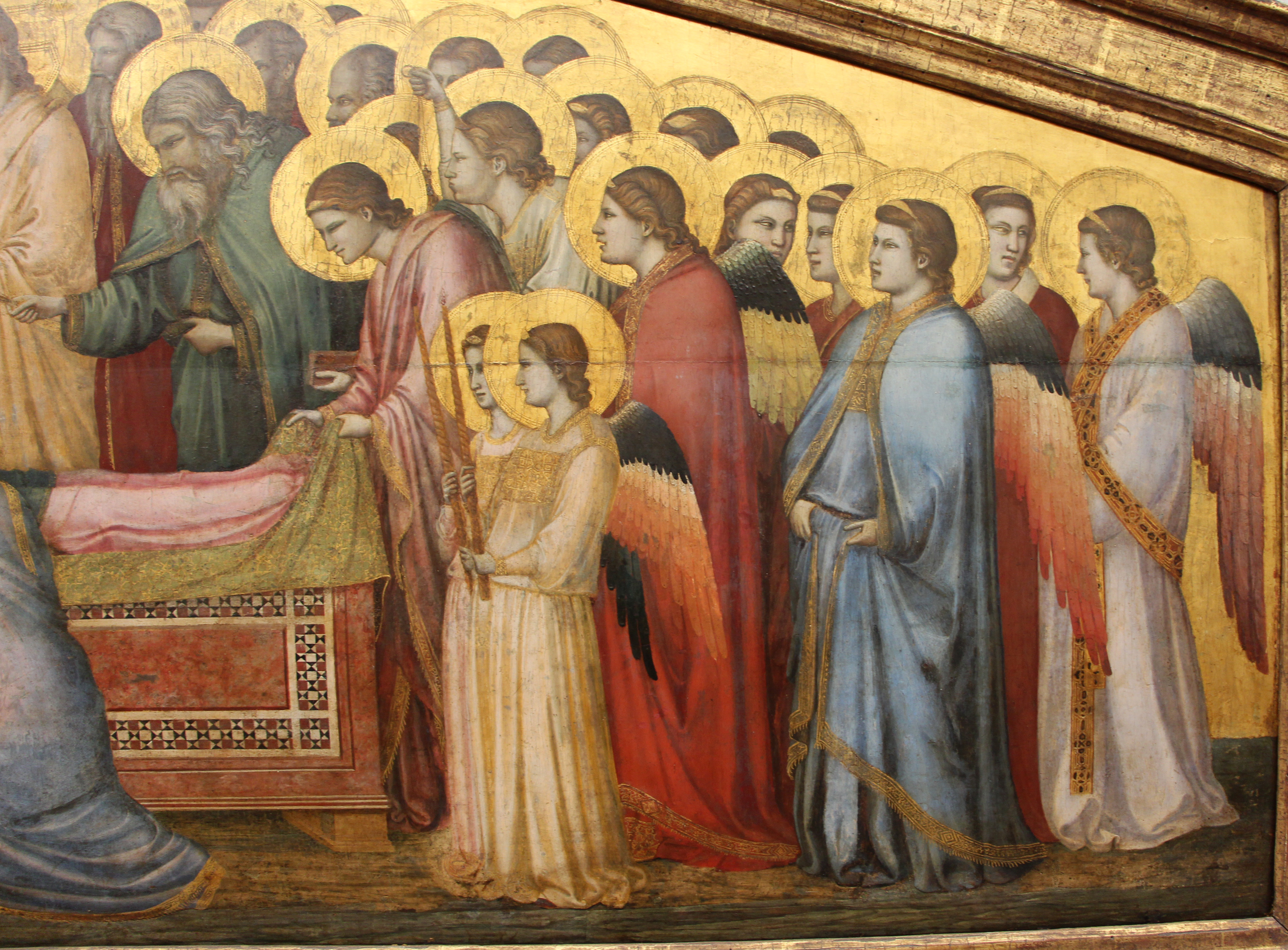 Italian Gothic paintings in the Gemäldegalerie, Berlin